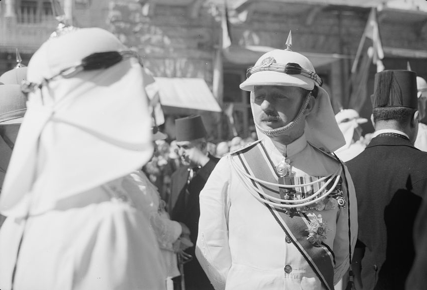 Glubb Pasha in Amman, Jordan during the celebrations of the 24th anniversary of the Arab Revolt in September 11, 1940